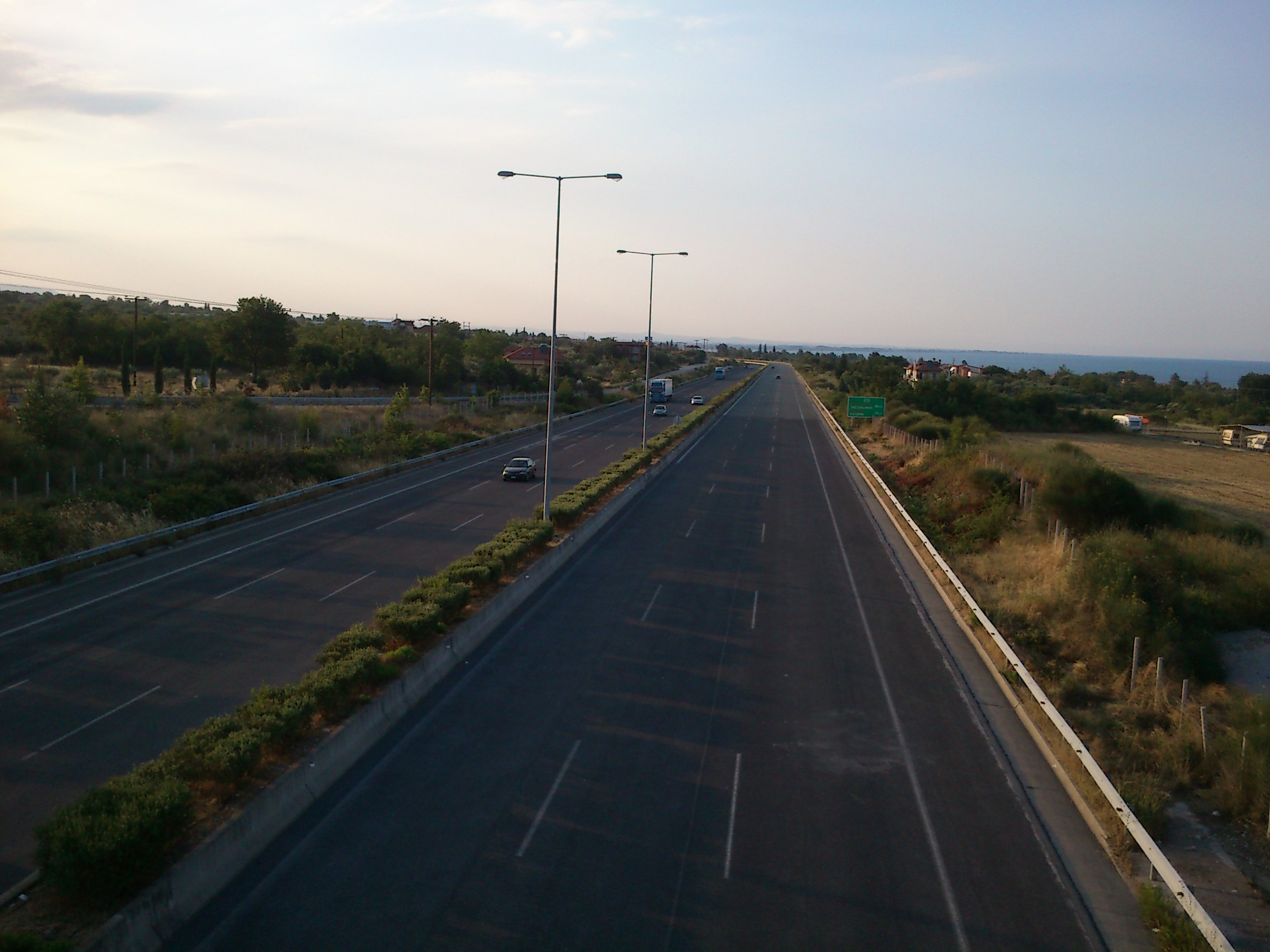 Motorway 1 near Litochoro, 15 km from Katerini and 90 km from Thessaloniki